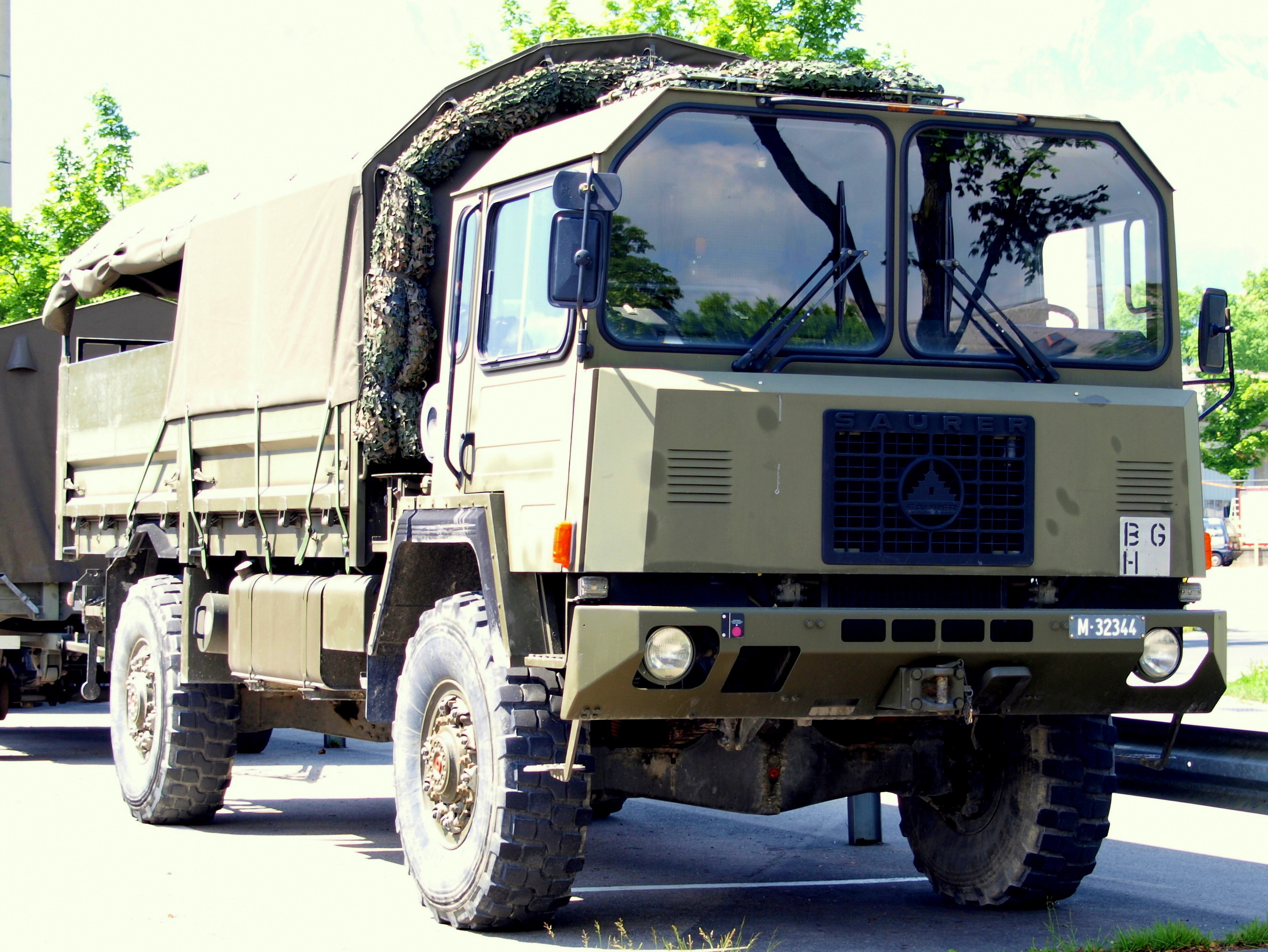 Photographed at the army base Thun, Switserland.